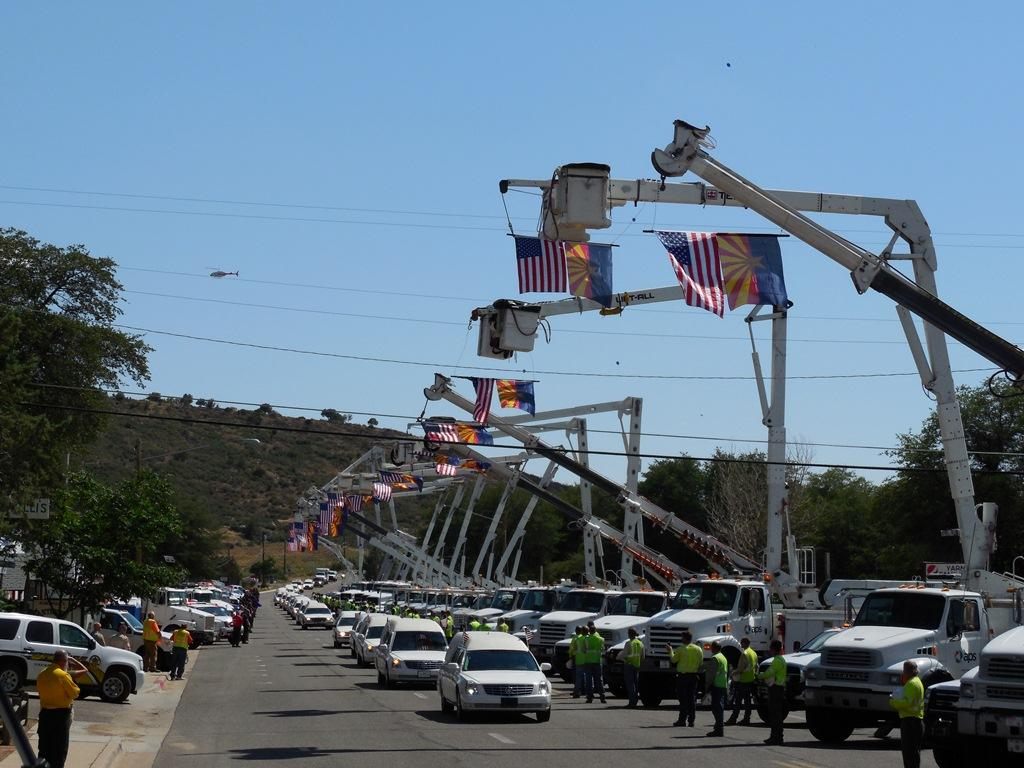 Yarnell Fire funeral procession.